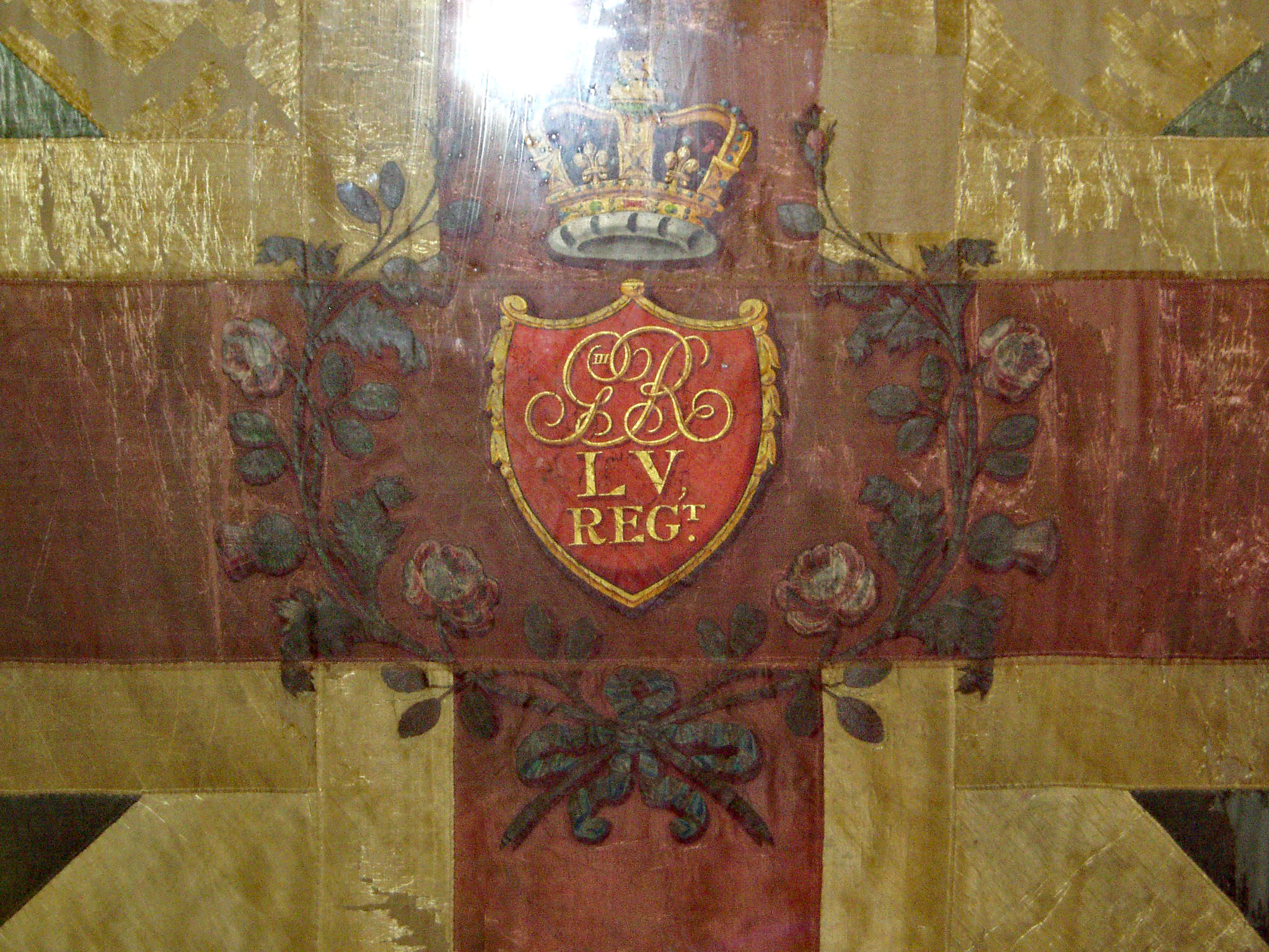 Detail of 1786 regimental colour of the 55th Regiment of Foot photographed in the Border Regiment Chapel in Kendal Parish Church. Photo taken by Neitz| 02:56, 10 August 2006 (UTC) 2004.